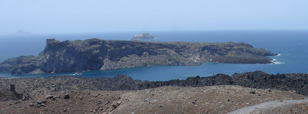 Palea Kameni as seen from Nea Kameni (on the right in the background also Aspronisi), Santorini, Greece. In the centre-right part of the island visible ships and people swimming near the hot springs.